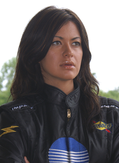 Race Car Driver and Environmental Activist Leilani Münter